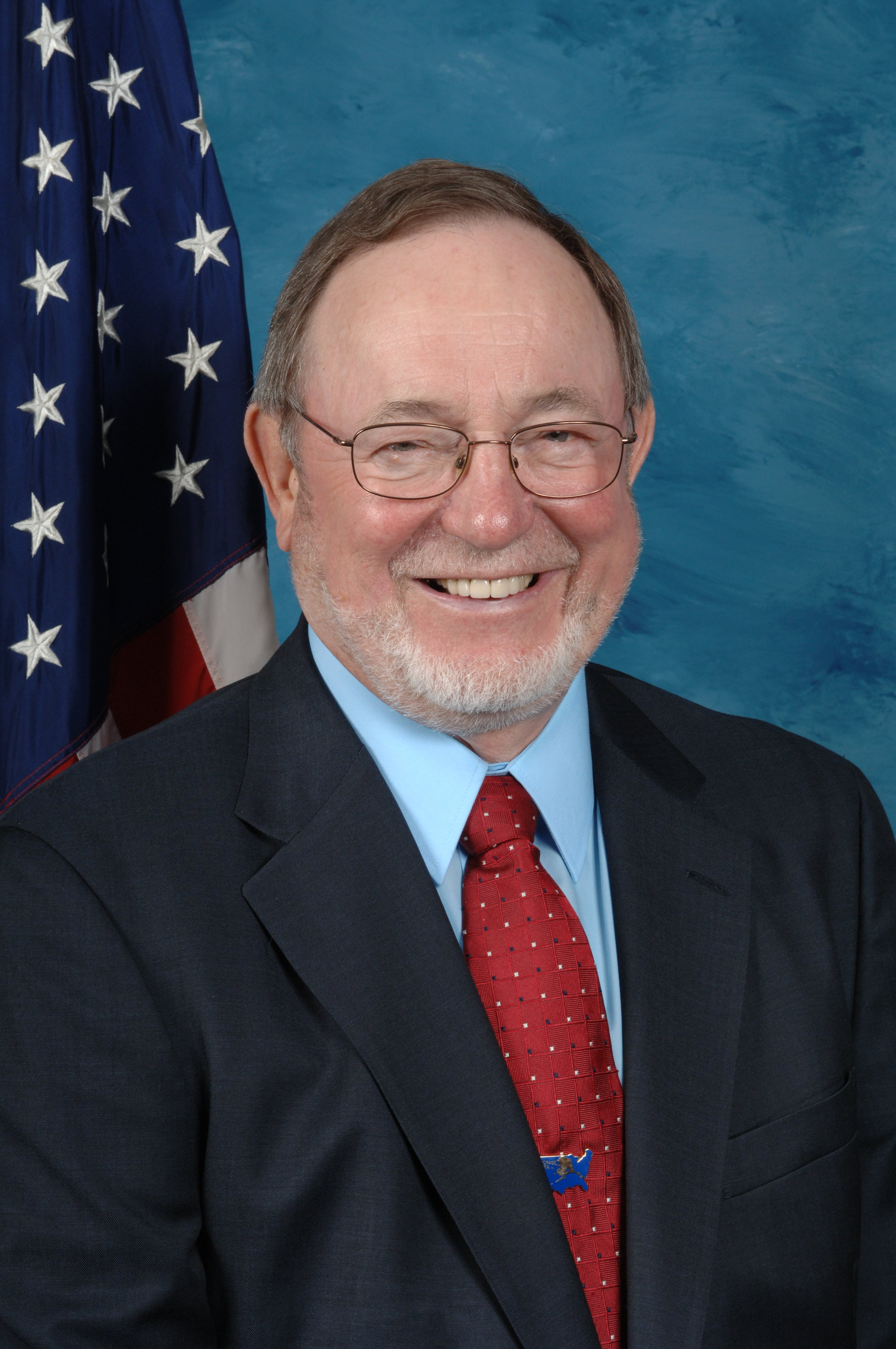 Don Young, U.S. Congressman from Alaska.